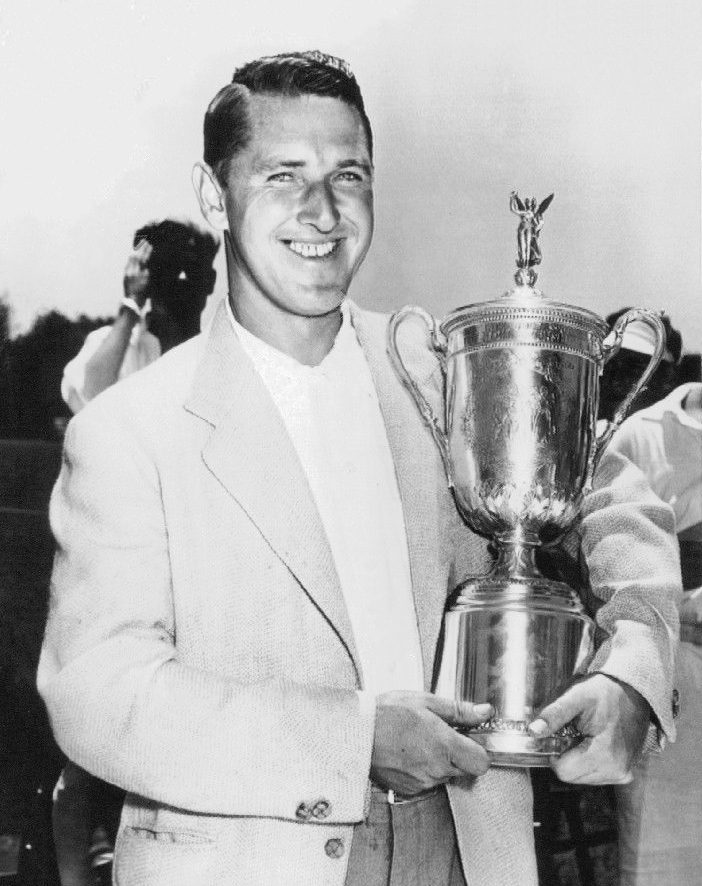 1947 St Louis MO Professional Golfer Lew Worsham & Winning U.S. Open Trophy Press Photo